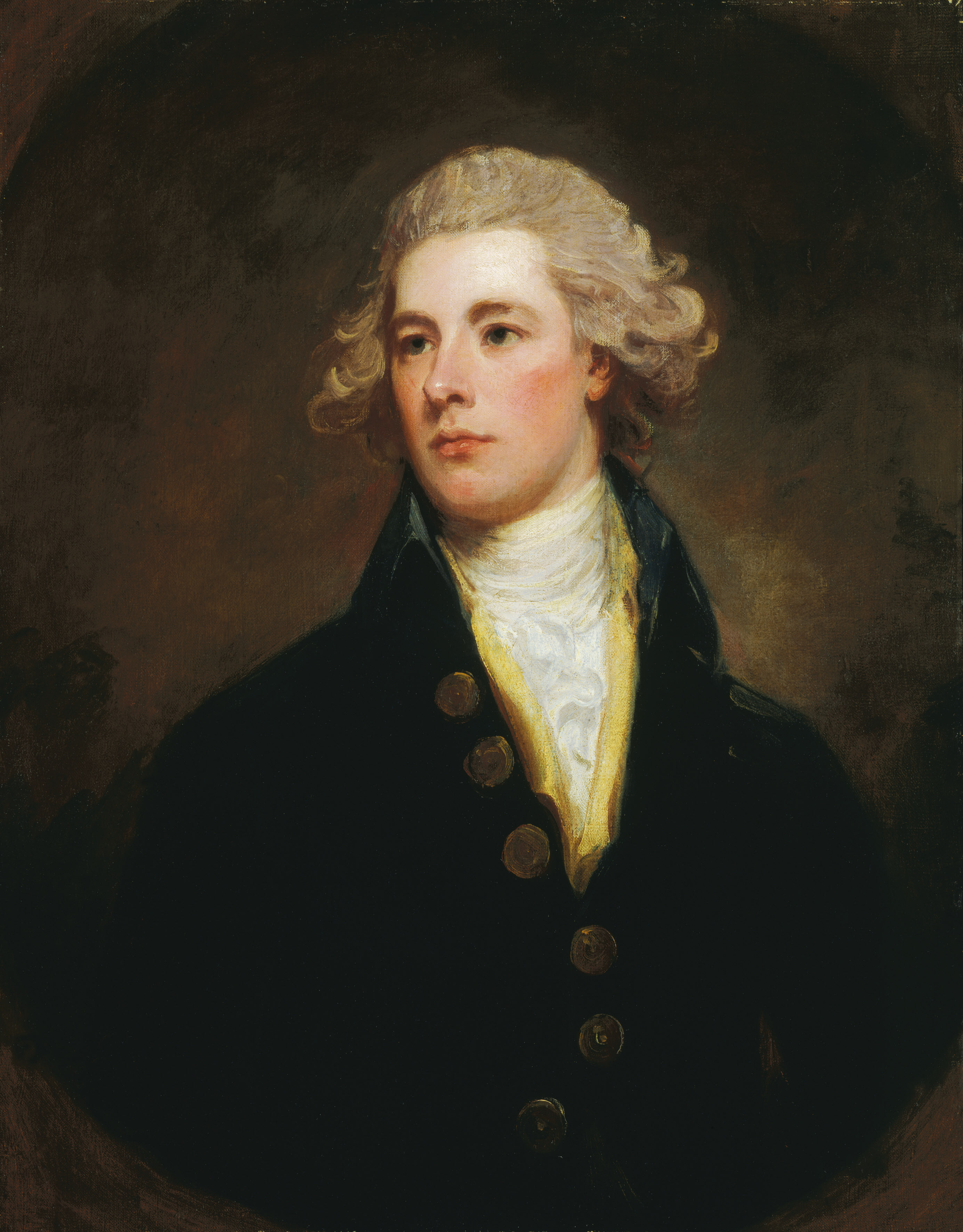 Portrait of William Pitt (1759–1806)